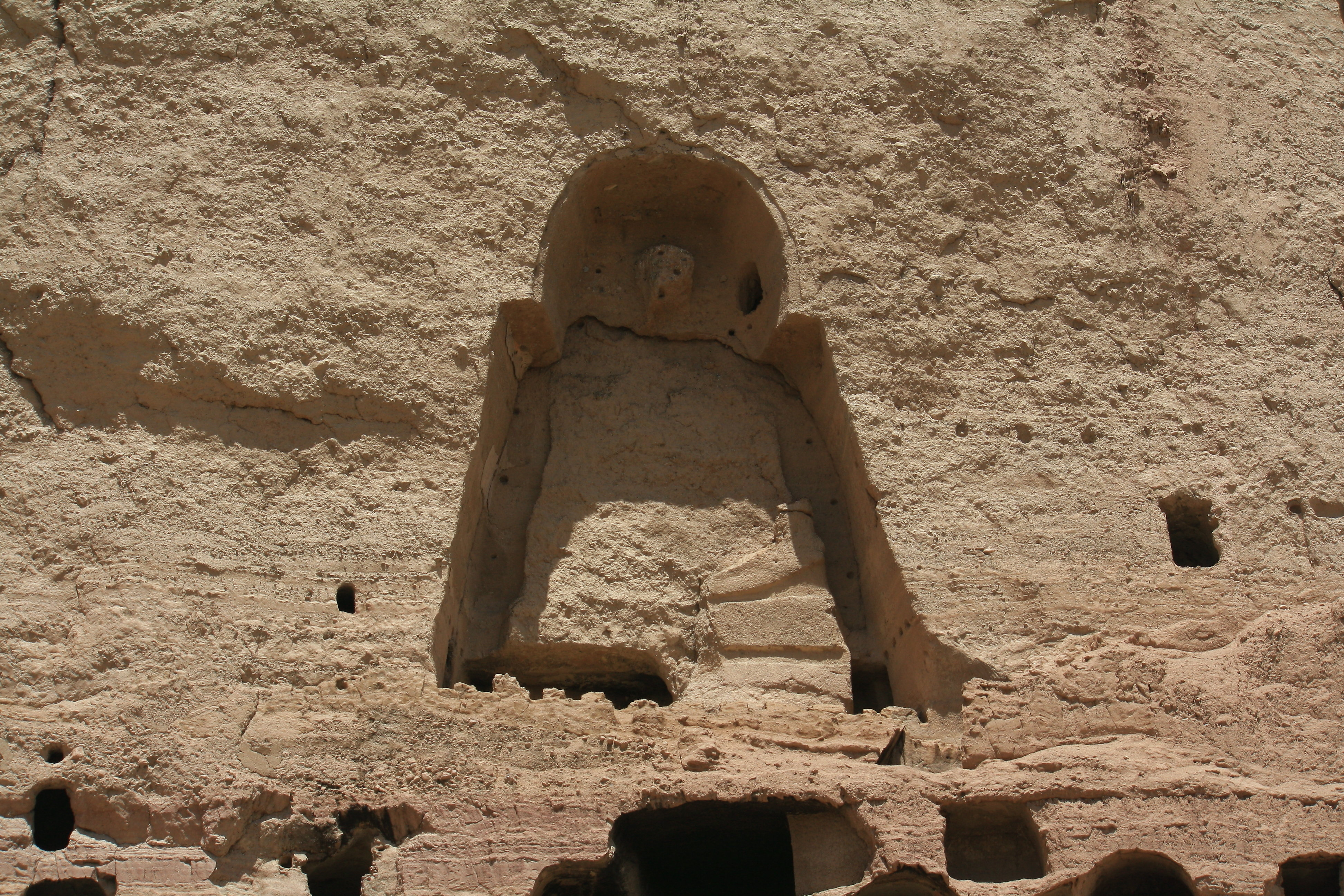 Ruins of Buddha sculptures by Bamiyan Afghanistan in 2010